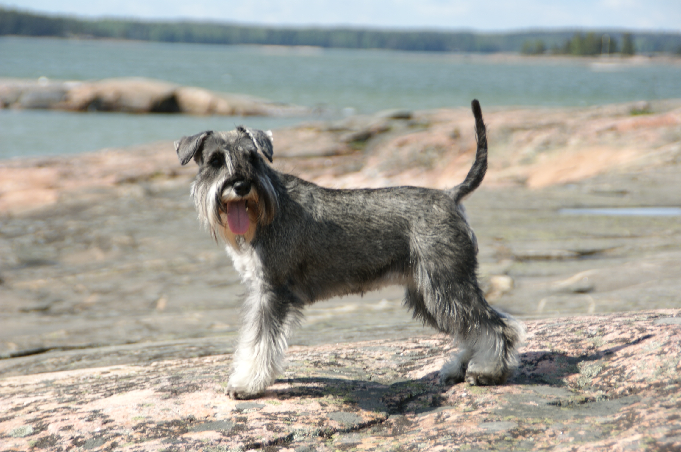 Salt & pepper Miniature Schnauzer.